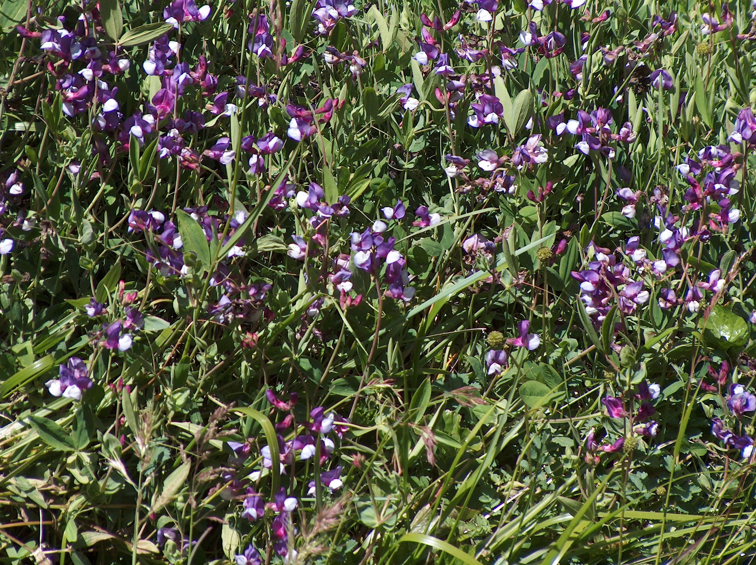 wild sweetpea Lathyrus subandinus, Family Fabaceae, photographed late December 2003, Pampa Linda near Bariloche, Argentina